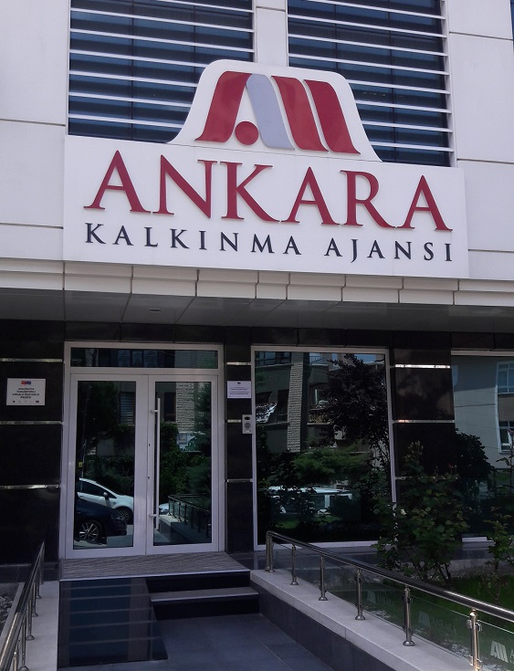 Development Agency in Turkey.